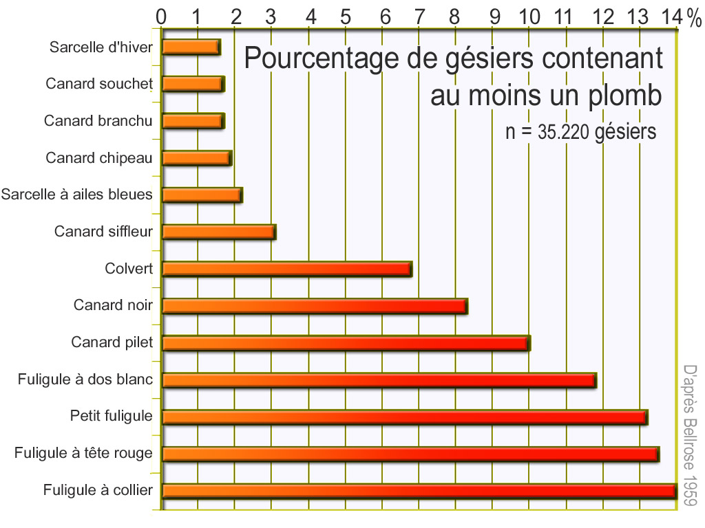 Percent of Waterfowl Gizzards Containing Lead Shot – (Data comming from Bellrose, 1959, collected from 35,220 gizzards of various duck species collected in North America.